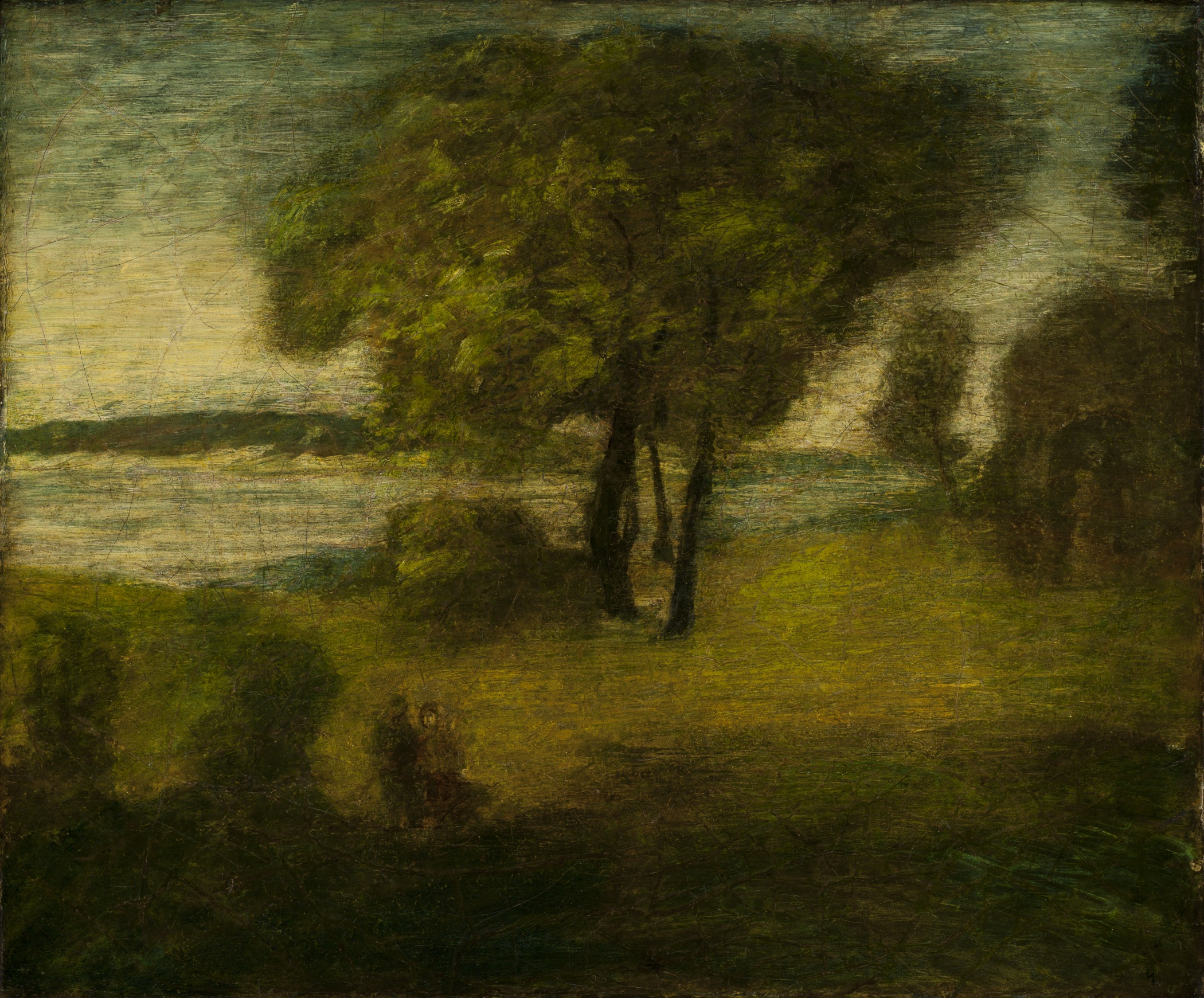 United States, circa 1884-1894 Paintings Oil on canvas Paul Rodman Mabury Collection (39.12.21) American Art Currently on public view: Art of the Americas Building, floor 3